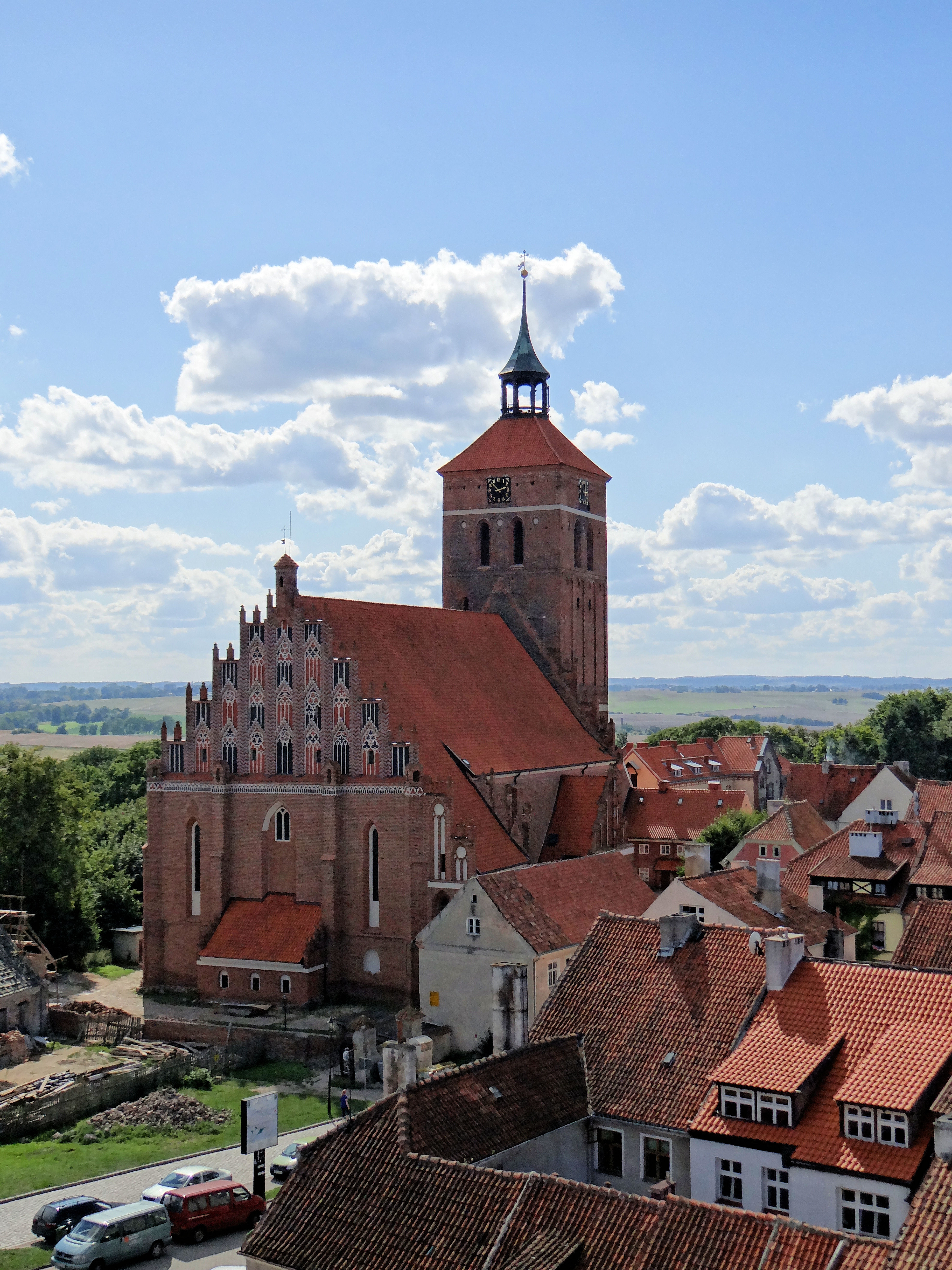 Church of SS. Peter and Paul in Reszel